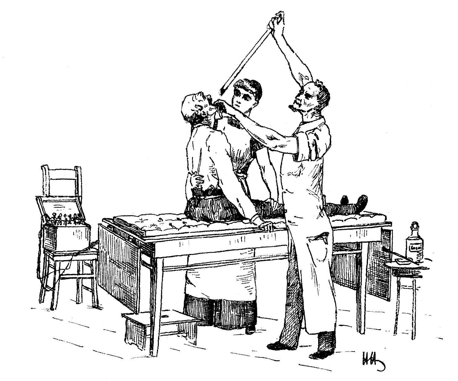 Introducing Kussmaul's gastroscope demonstrated by Dr. Hecker